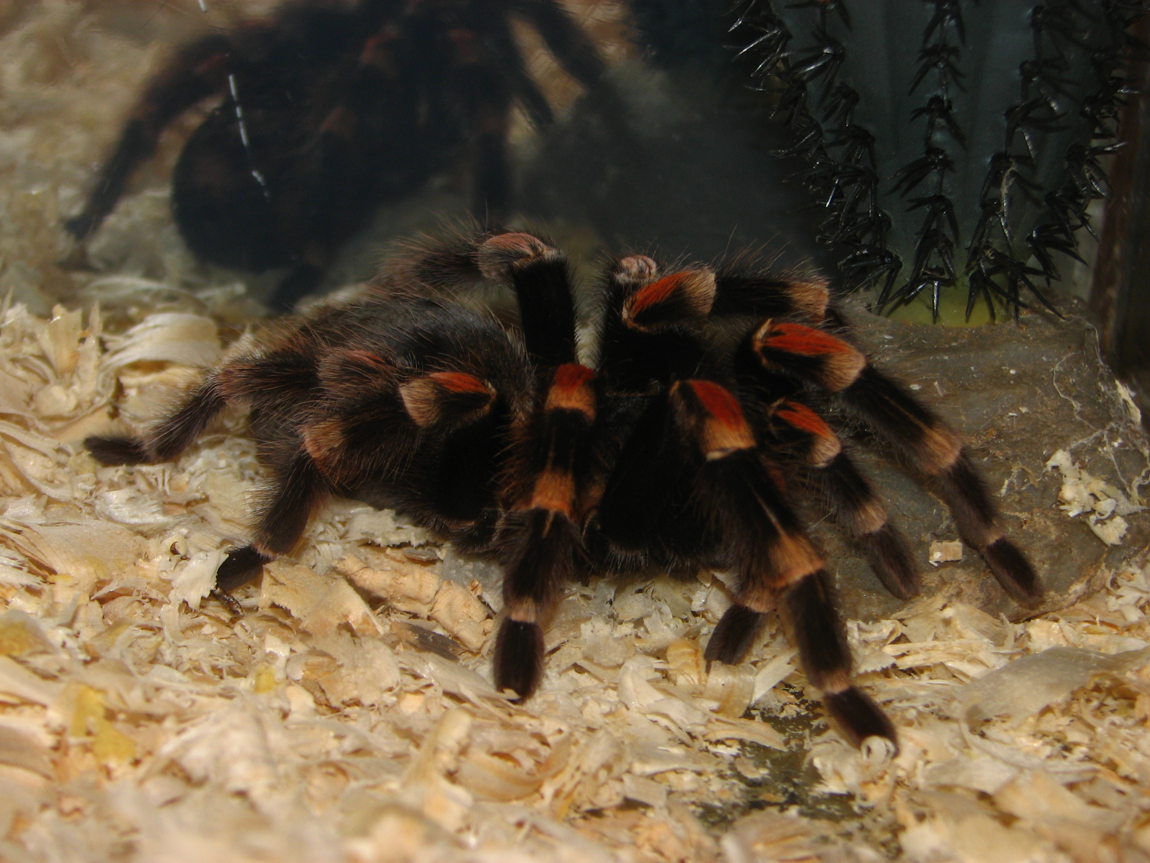 Mexican redknee tarantula